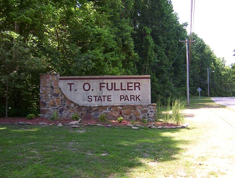 Park Enterance